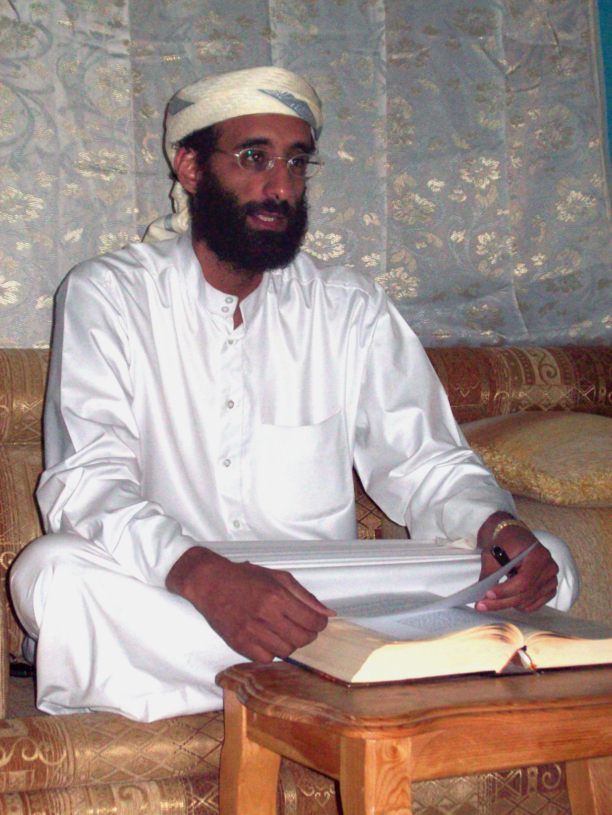 Imam Anwar al-Awlaki in Yemen October 2008, taken by Muhammad ud-Deen.